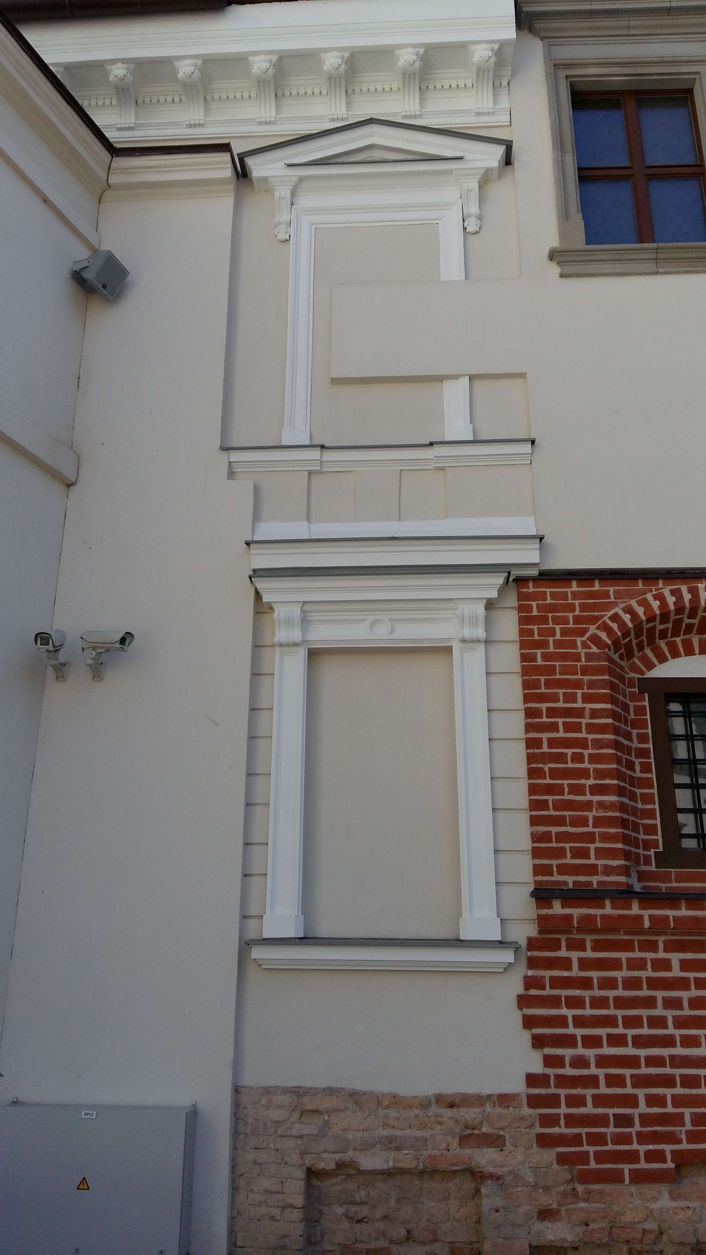 East Wing fragment (Grand Duke Palace, Vilnius)